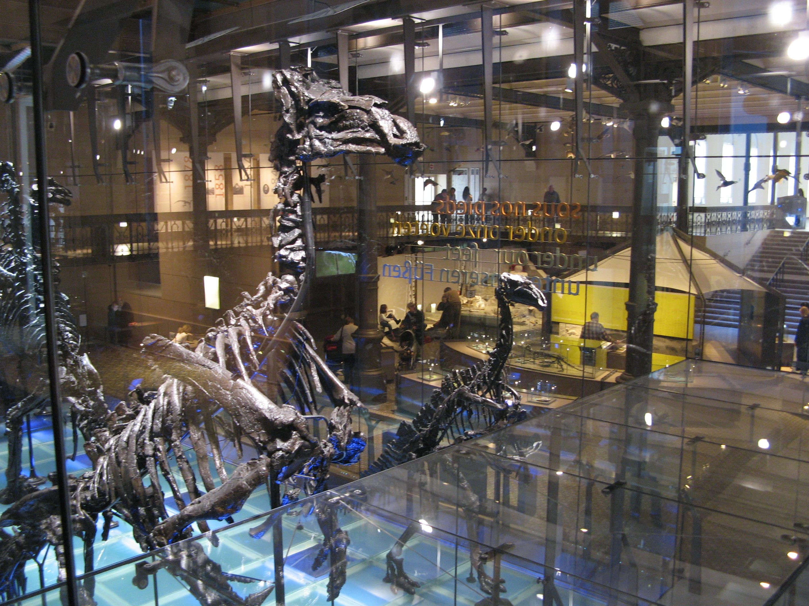 I. bernissartensis and Dollodon bampingi